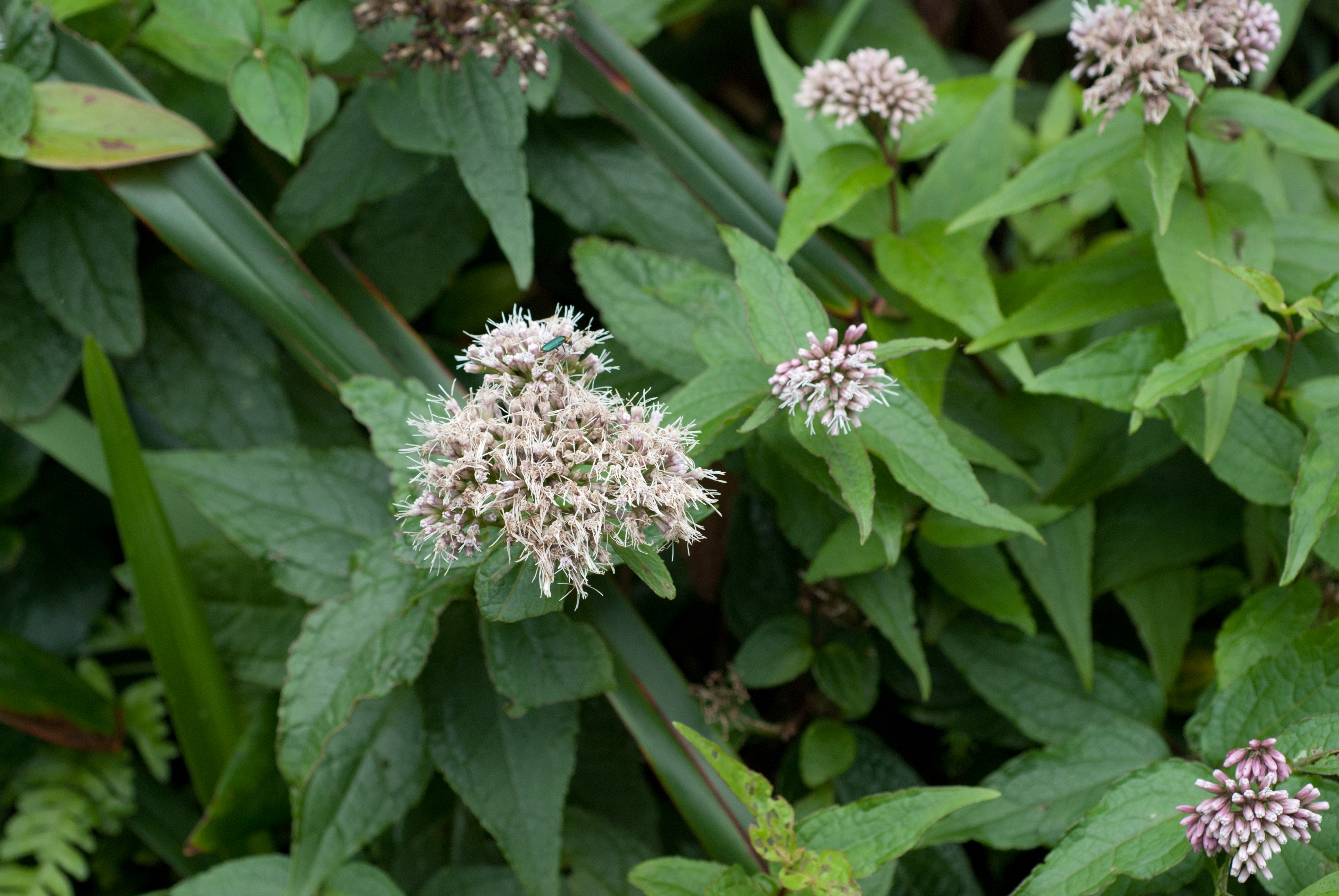 Eupatorium kiirunense.